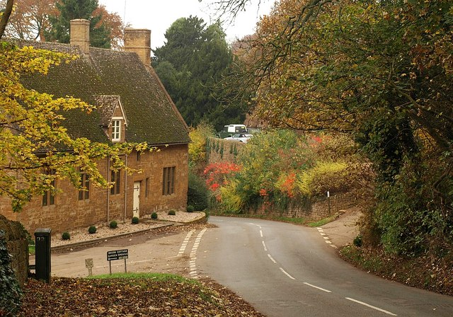 Alkerton, Oxfordshire: road from Alkerton Barn into the village past Well Lane (left) and an ironstone house